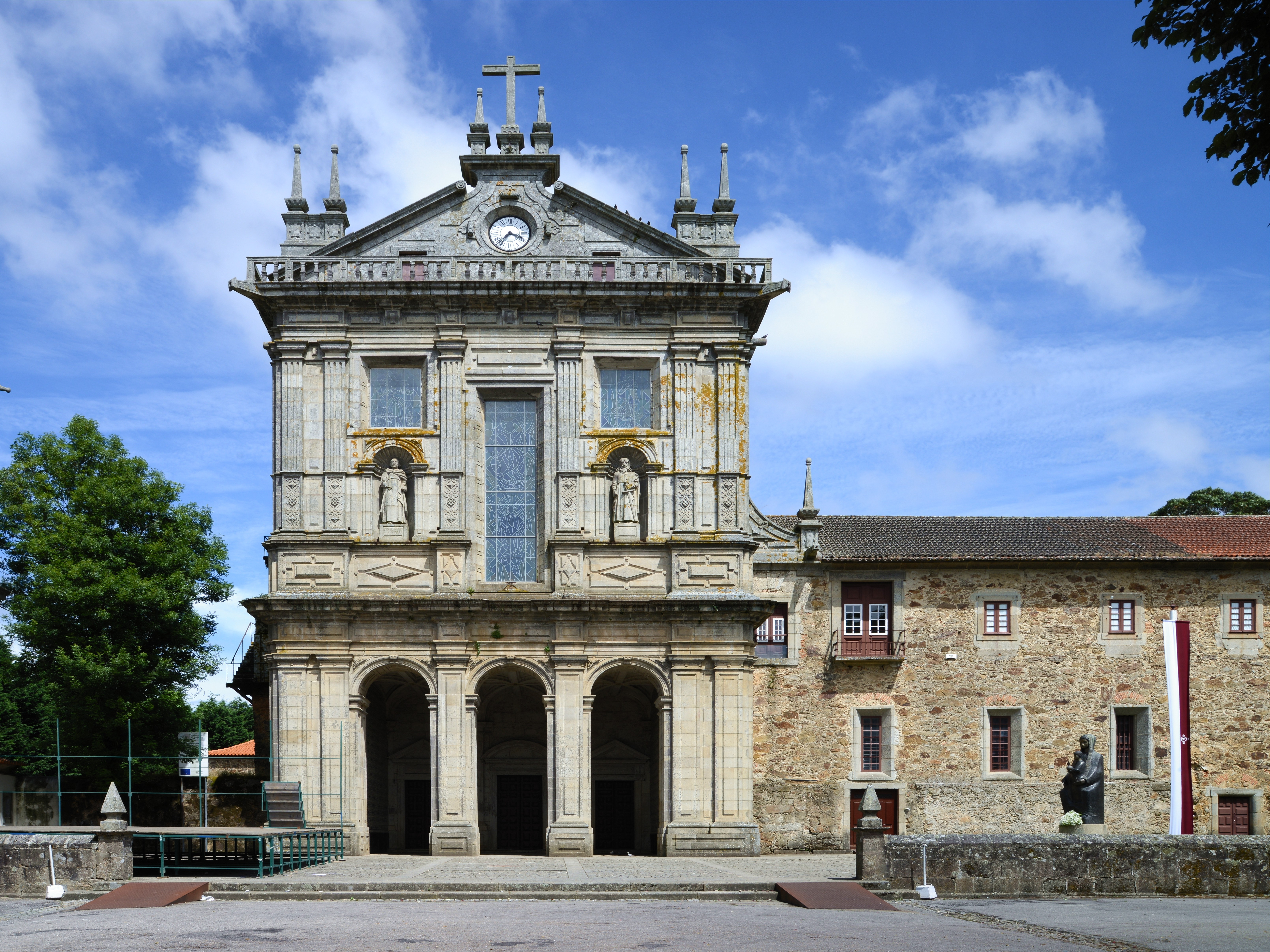 Monastery of Grijó, Portugal. Main facade